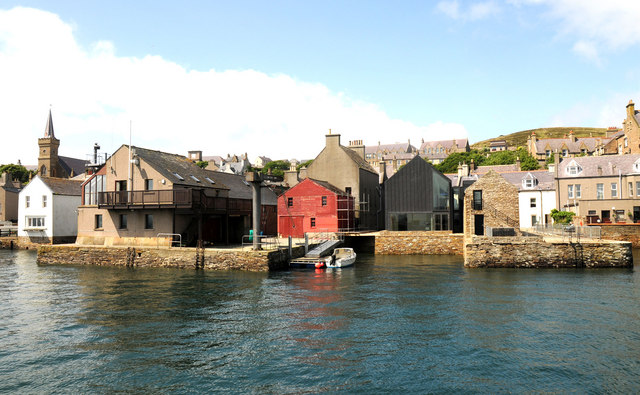 Stromness